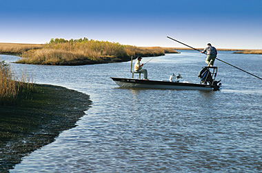 Author: Uptown Angler